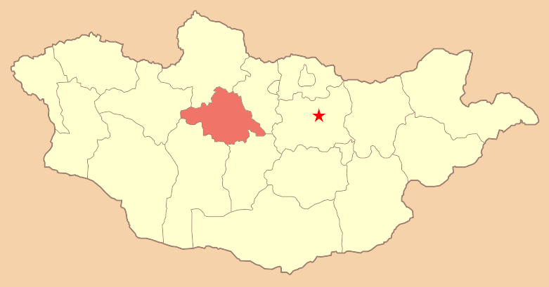 Map of Mongolia with Arkhangai Aimag highlighted.